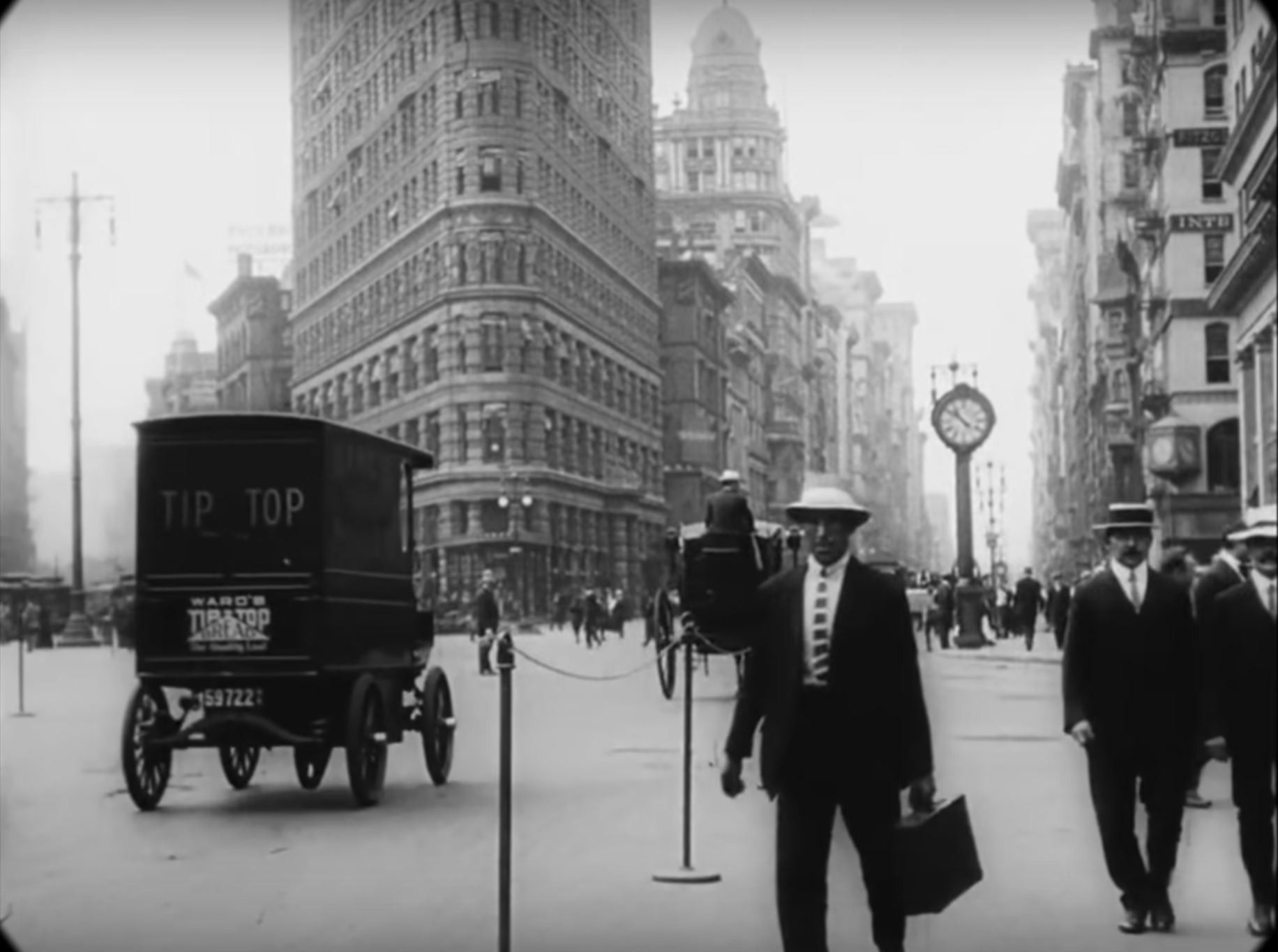 A part of the image from a 9-min-film produced by Svenska Biografteatern. Silent, with music by Ben Model. New York 1911. 1911. Sweden. A horse-drawn wagon pass through Flatiron building with Ward's tip-top bread advertisement on it.